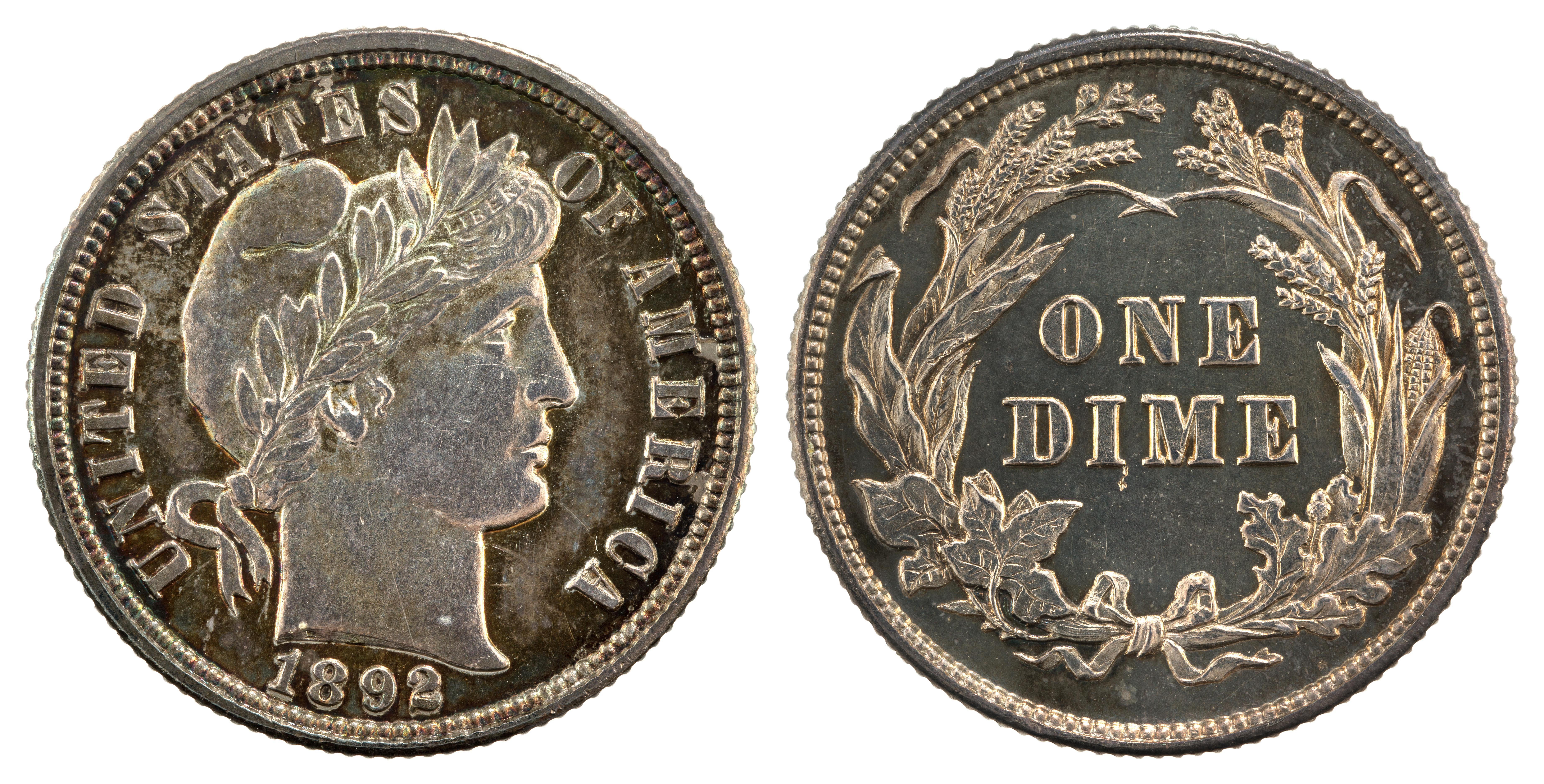 1892-10C-Barber DimeJN2015-6621-22